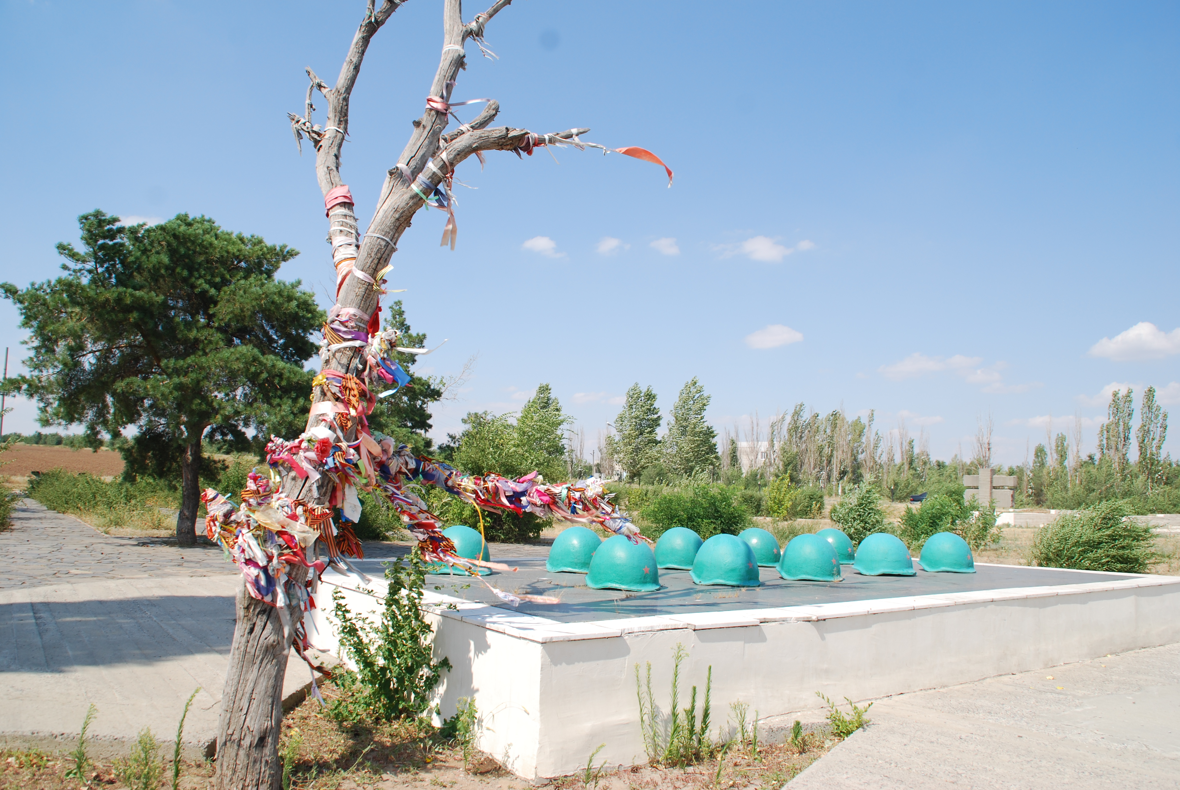 You are free to use this image providing you include a credit to